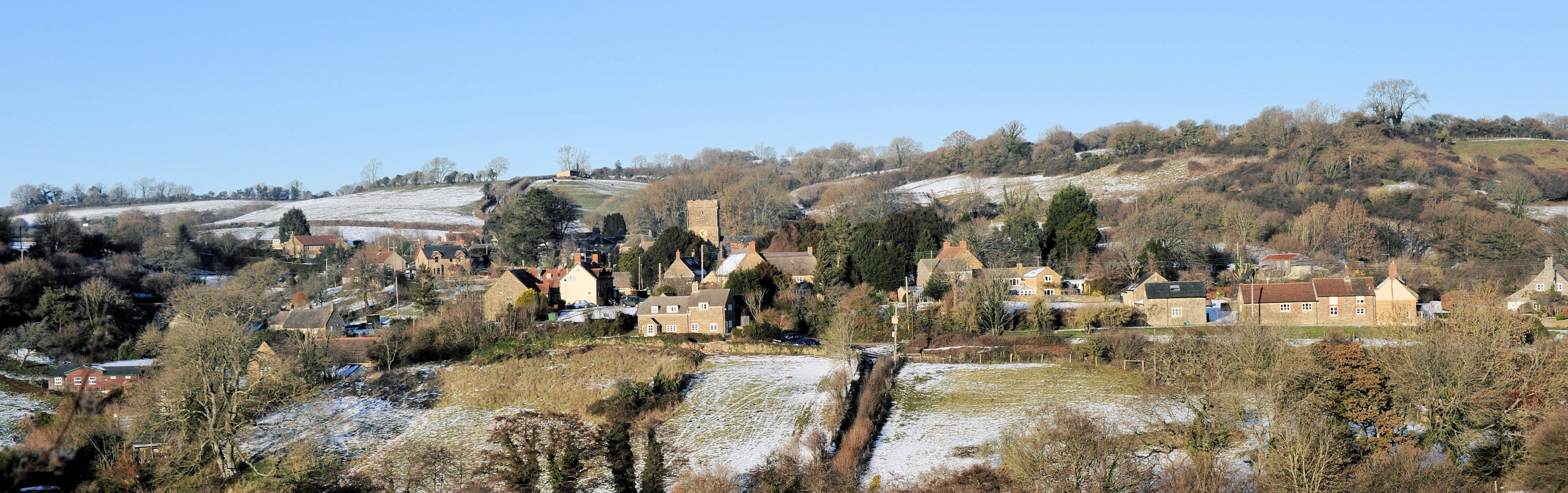 Panoramic view of the village of Powerstock in Dorset, England, taken from the top of Welcome Hill using a Nikon D700 and 50mm lens at f/11, 1/500s